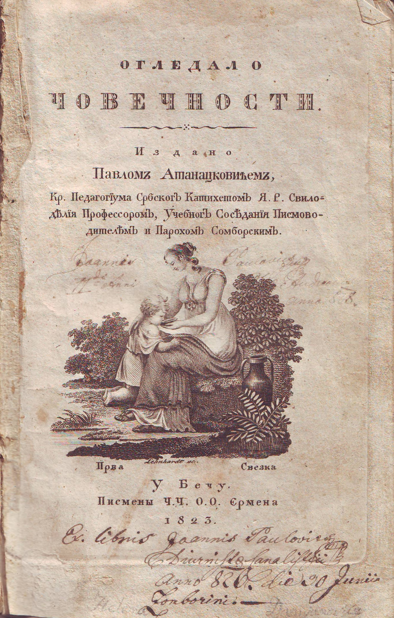 Cover of Ogledalo čovečnosti (1823) by Pavle Atanacković. Srpski (latinica): Naslovna strana Ogledala čovečnosti (1823) Pavla Atanackovića.